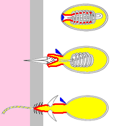 Firing mechanism of hydra nematocyst Ref:Ruppert, E.E., Fox, R.S., and Barnes, R.D. (2004) Invertebrate Zoology (7th ed.), Brooks / Cole, pp. 111-124 ISBN: 0030259827.